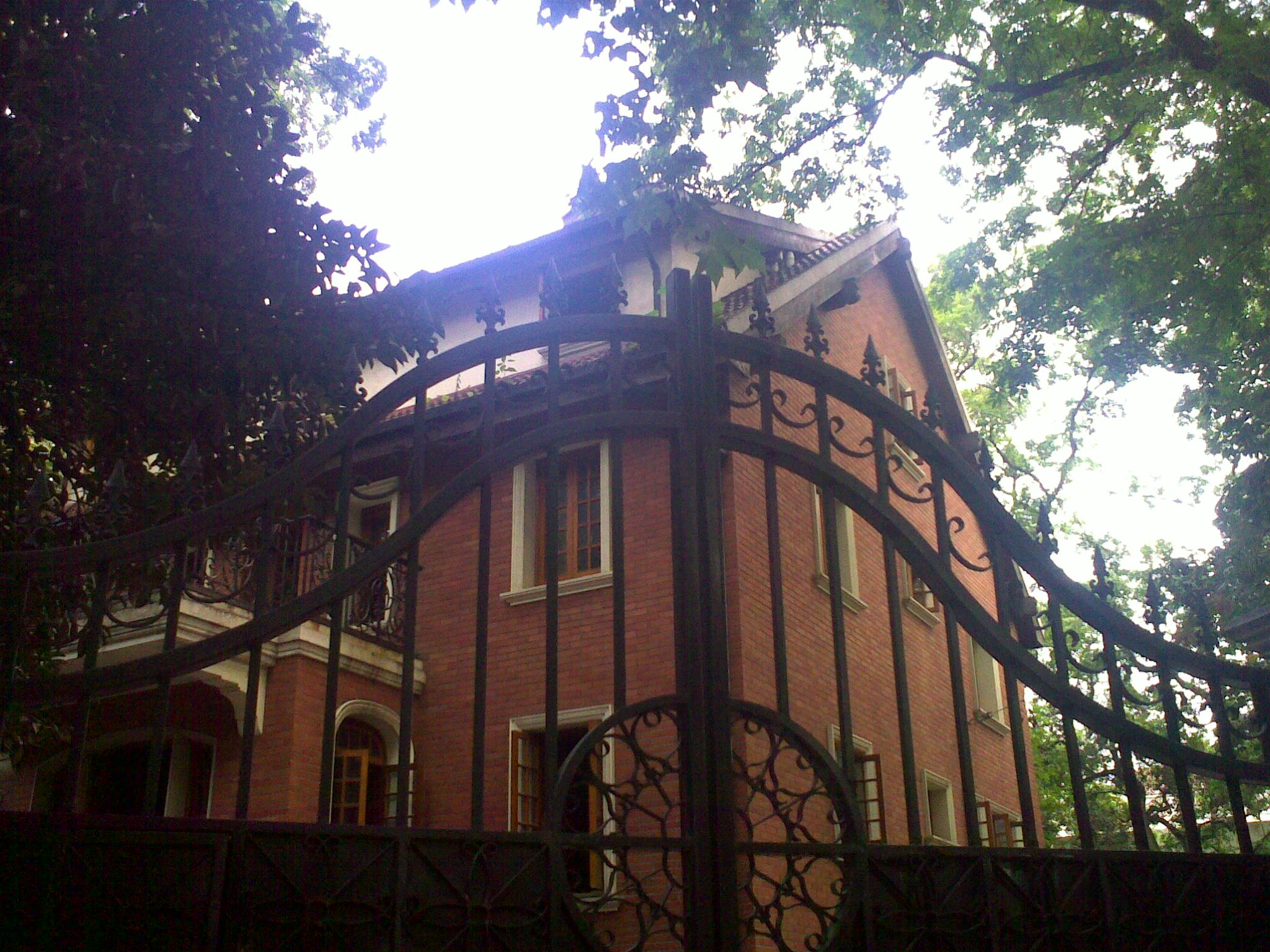 Hengshan Road Lane 9 No. 1